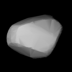 3D convex shape model of 1837 Osita, computed using light curve inversion techniques. J. Hanuš, J. Ďurech, M. Brož, B. D. Warner (June 2011). "A study of asteroid pole-latitude distribution based on an extended set of shape models derived by the lightcurve inversion method". Astronomy and Astrophysics 530: A134. ISSN 0004-6361. arXiv